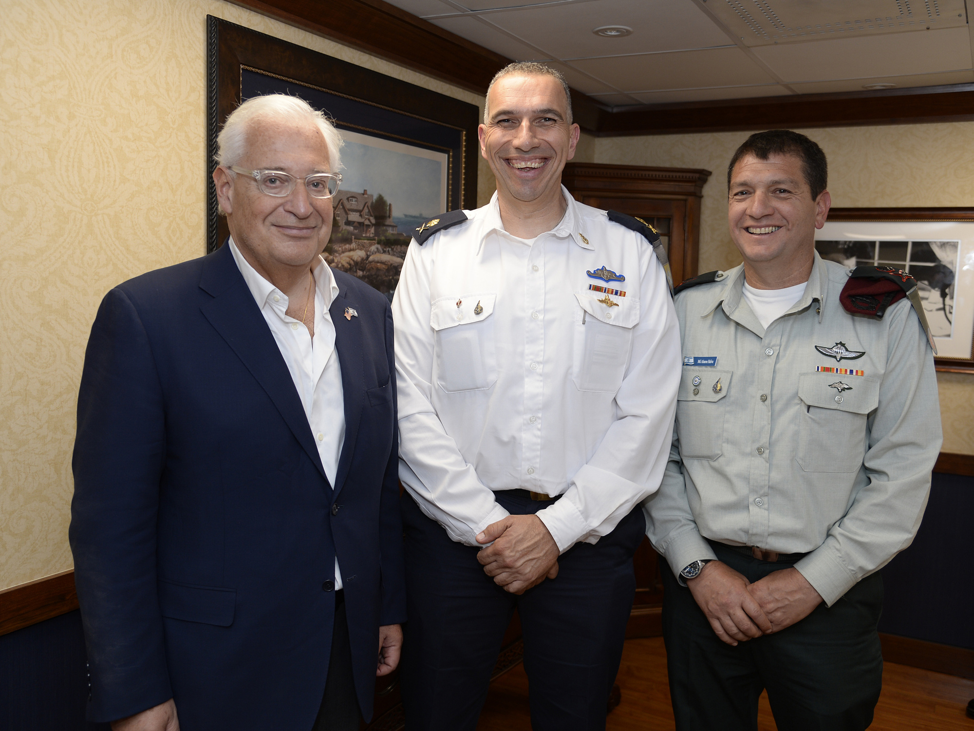 U.S. Ambassador to Israel David Friedman and Commander, U.S. Naval Forces Europe and Africa Adm. Michelle Howard, hosted Israeli Prime Minister Benjamin Netanyahu on board the Nimitz class USS George H. W. Bush (CVN 77), anchored off the coast of Haifa, Israel, Monday, July 3, 2017. Prime Minister Netanyahu was accompanied by Minister of Transportation Israel Katz, mayor of Haifa Yona Yahav, and IDF Deputy Chief of Staff Maj. Gen. Aviv Kochavi. Prime Minister Netanyahu and the Israeli delegation were given a tour of the ship by Rear Adm. Kenneth Whitesell, Commander, Carrier Strike Group 2, and Will Pennington, commanding officer of the USS George H. W. Bush. The Nimitz-class aircraft carrier USS George H. W. Bush (CVN 77) arrived in Haifa, Israel, for a scheduled port visit), to enhance U.S.-Israel relations as the two nations reaffirm their continued commitment to the collective security of the European and Middle East Regions. The arrival marked the first time an U.S. aircraft carrier docked at an Israeli port since the USS Eisenhower in April 2000.